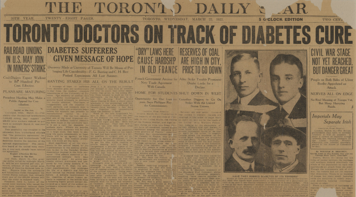 110 - Decade 11 - BANTING-BEST : This is the front page from, March 22/1922. It talks of the Banting and Best accomplishments regarding insulin and diabetes cure.(Michael Bliss supplied this page. Banting's photo was cut out of the Star's copy before it was microfilmed)